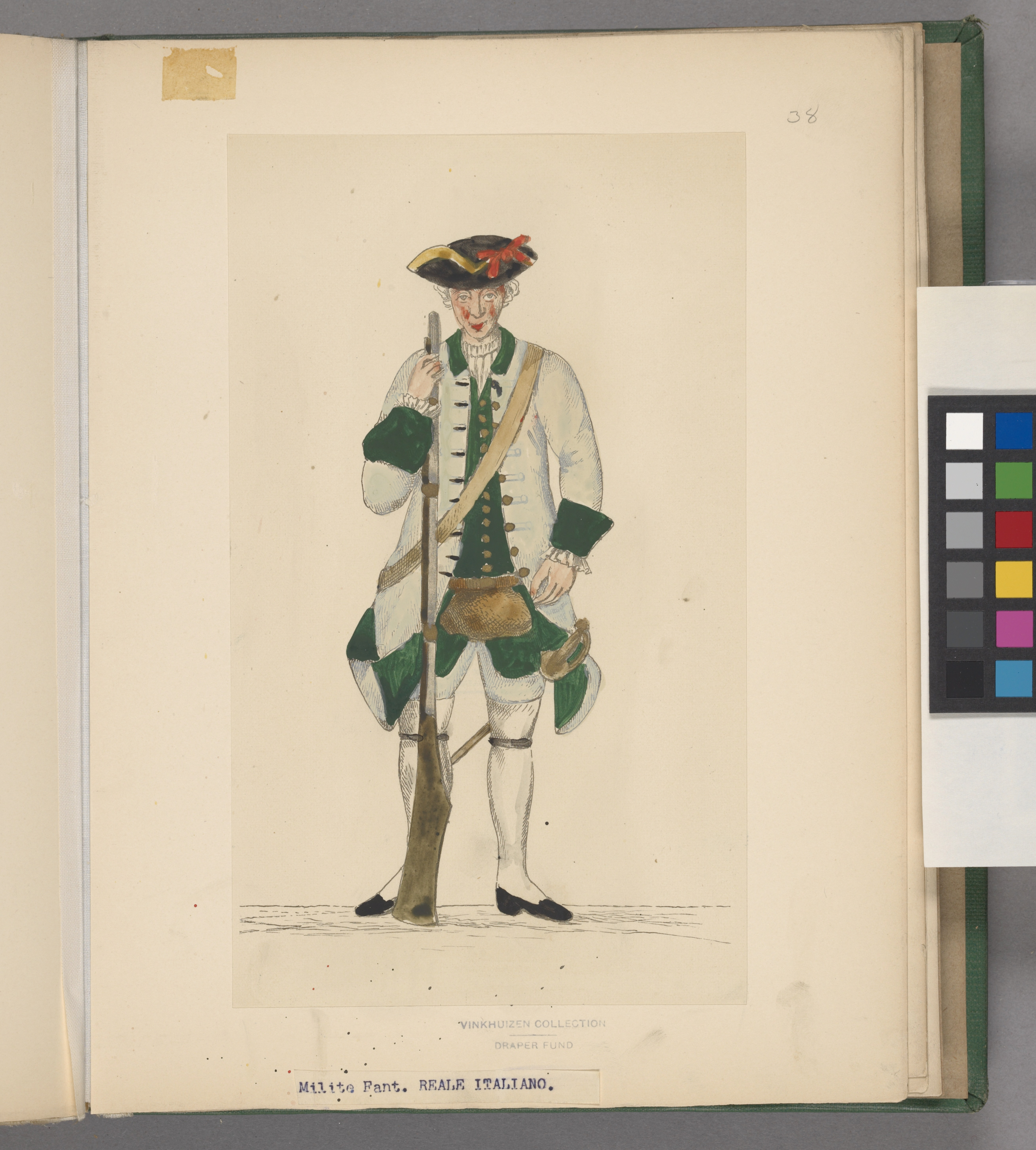 Italy. Kingdom of the Two Sicilies, 1730-1740